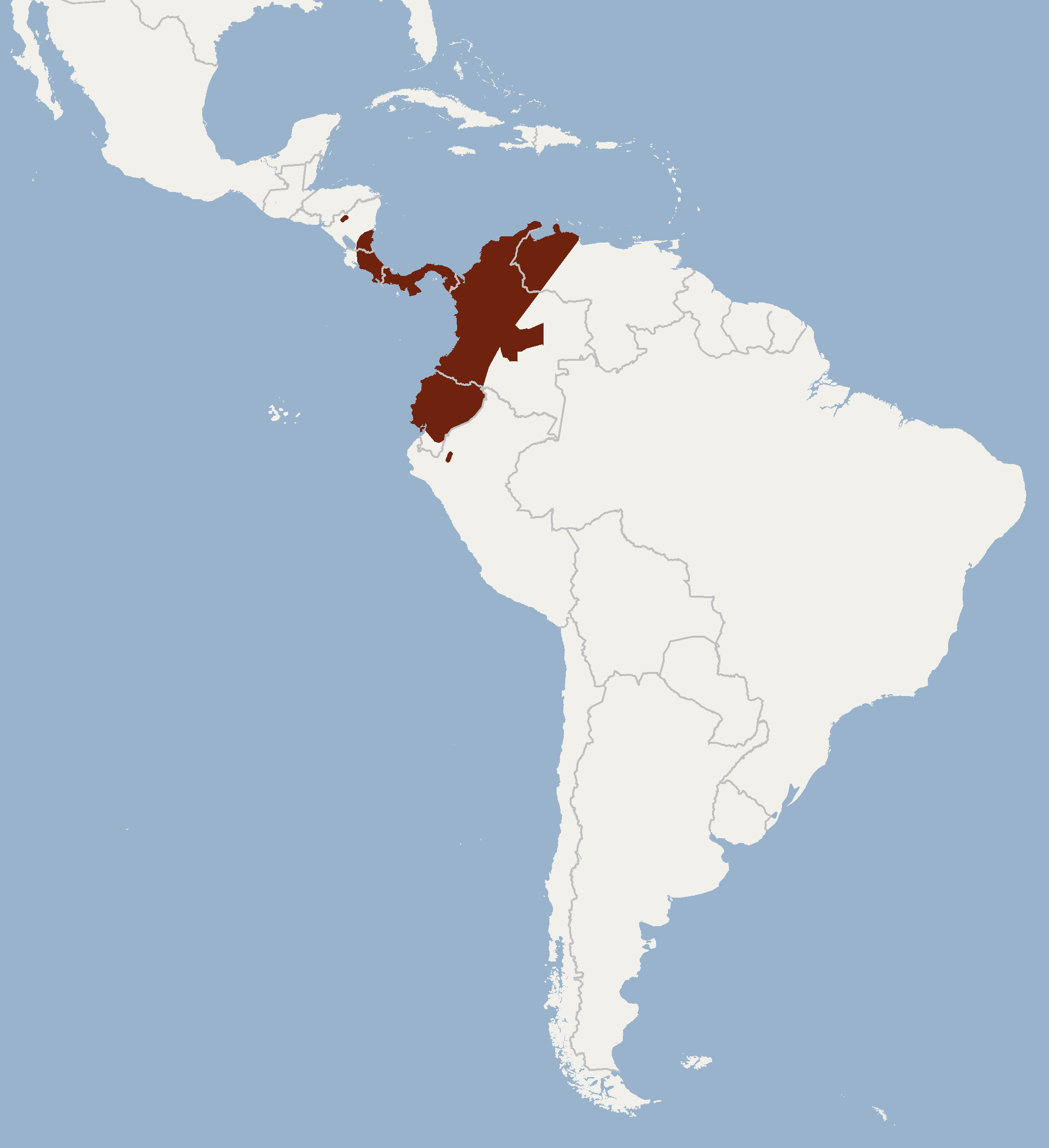 Geographical distribution of Lonchophylla robusta according to